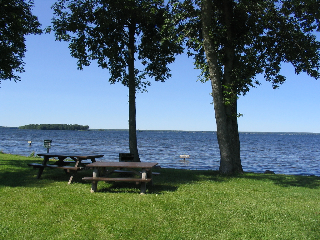 photo of Oneida Lake from Williams Park in Cicero, NY, taken by me on June 23, 2004